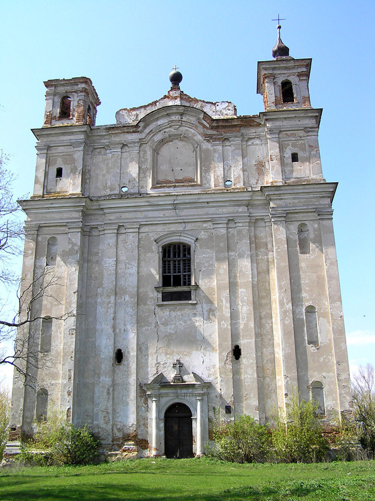 Saint Anthony's catholic church in Velyki Mezhyrichi village, Ukraine.